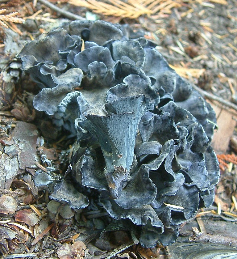 The fungus Polyozellus multiplex. Photographed in Lake Wenatchee Area WA, USA